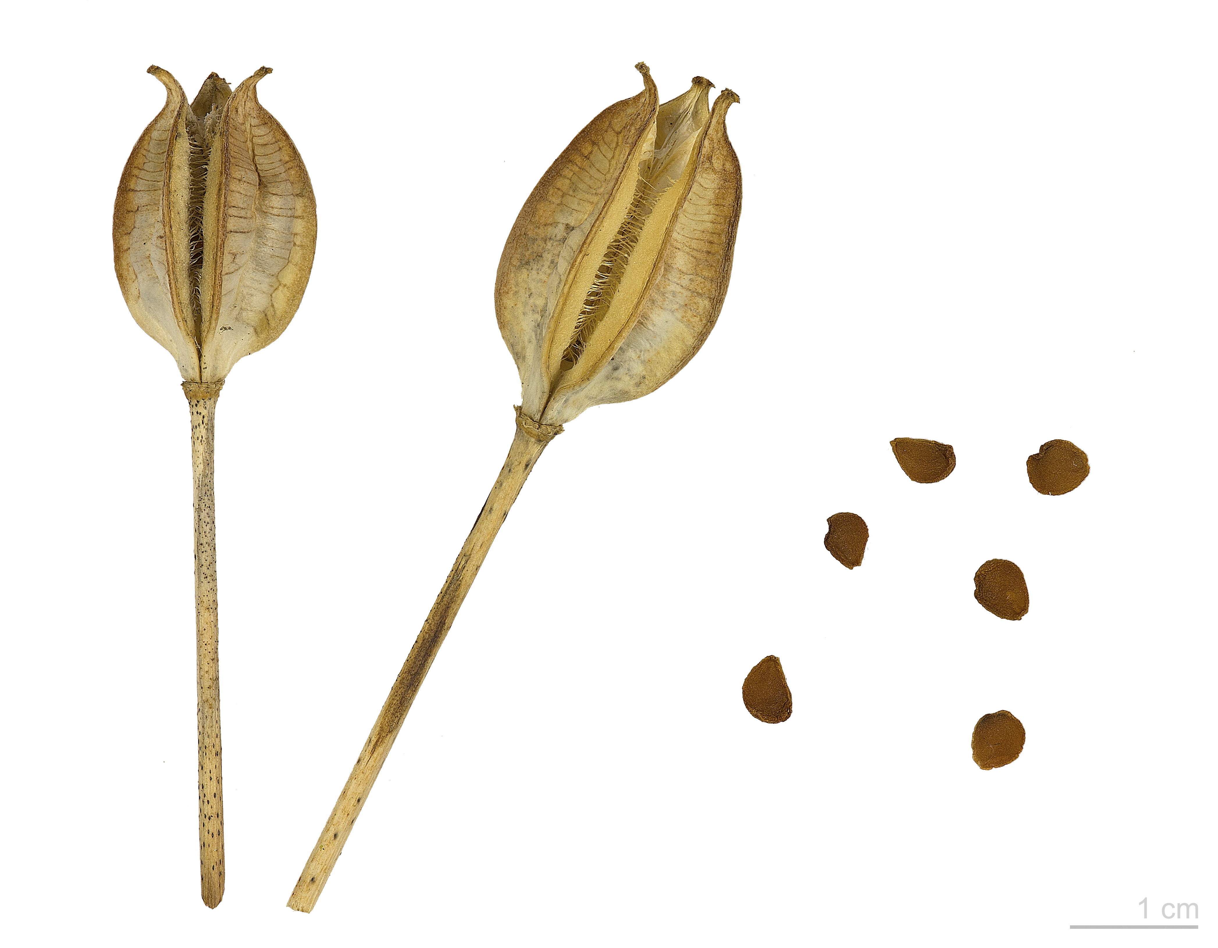 Tulipa sylvestris, woodland tulip, seeds